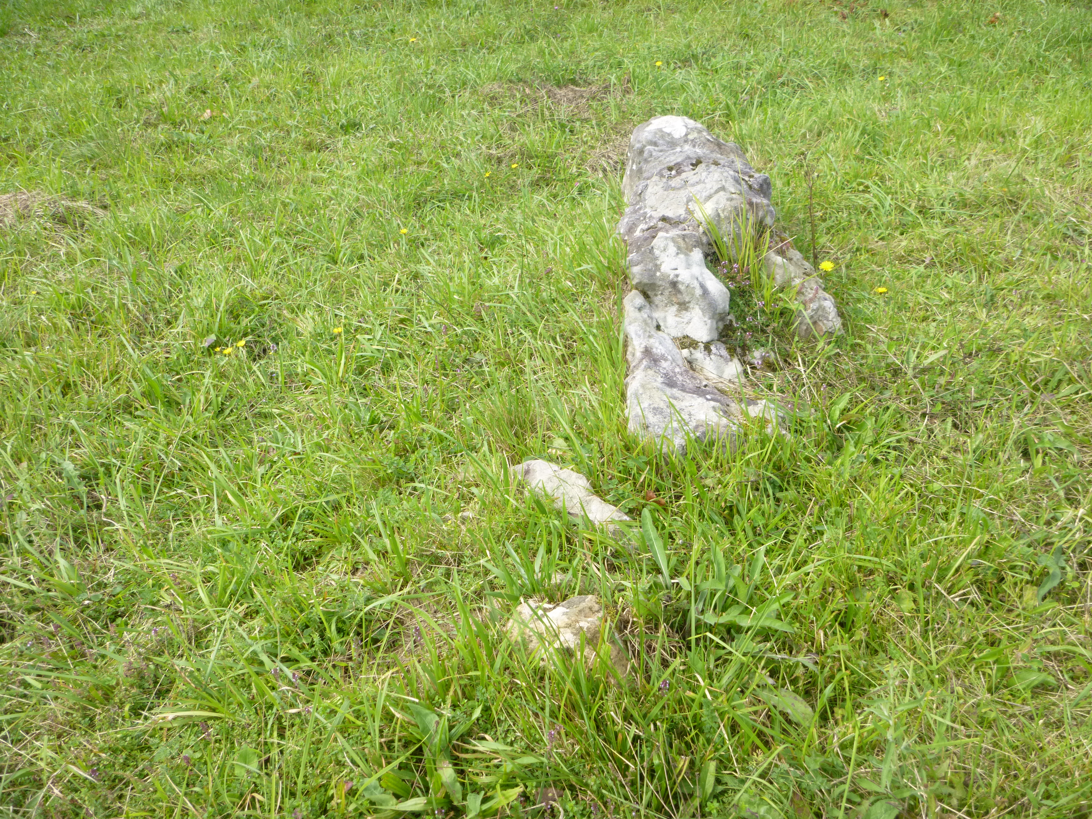 Berrozpin 2